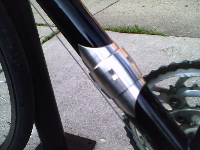 An S and S Coupling™ also known as a Bicycle Torque Coupling™ or BTC™